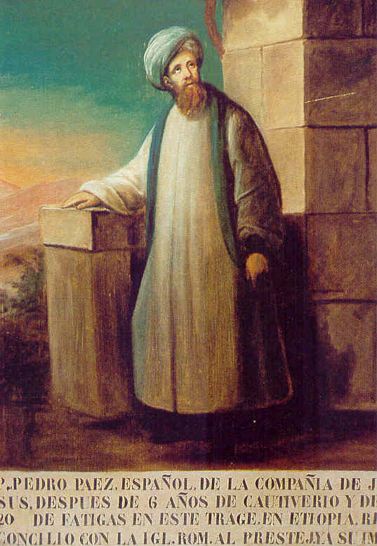 Jesuit father Pedro Páez, missionnary in Ethiopia.